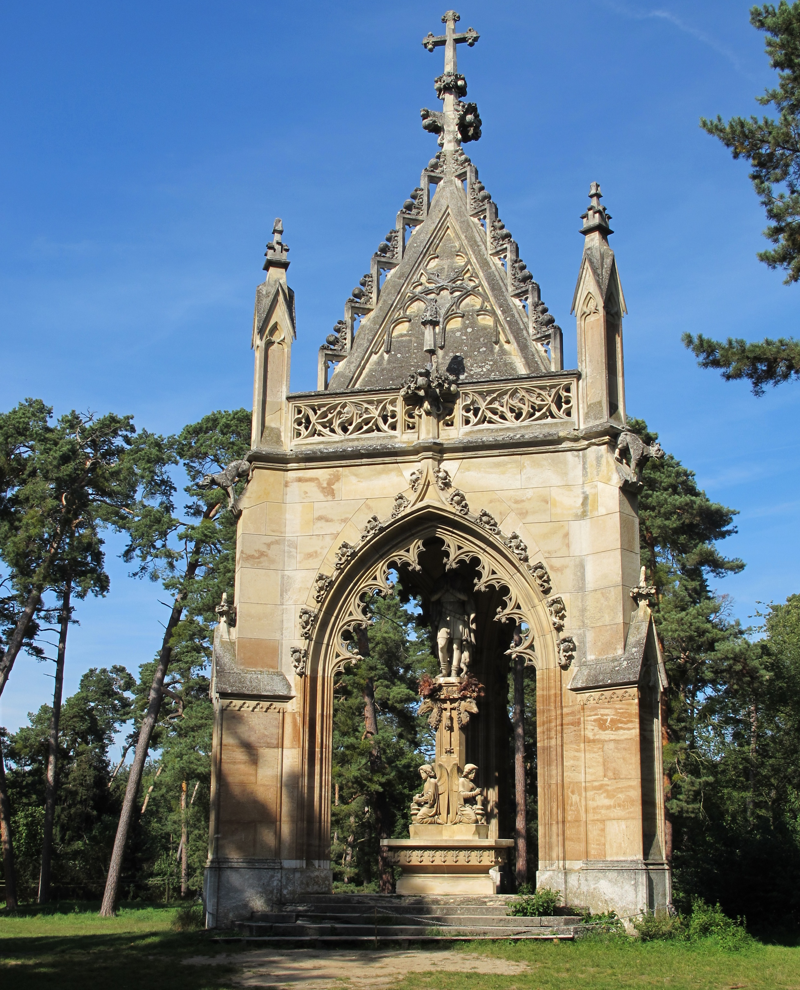 St Hubert Chapel in Lednice–Valtice Cultural Landscape, Břeclav District